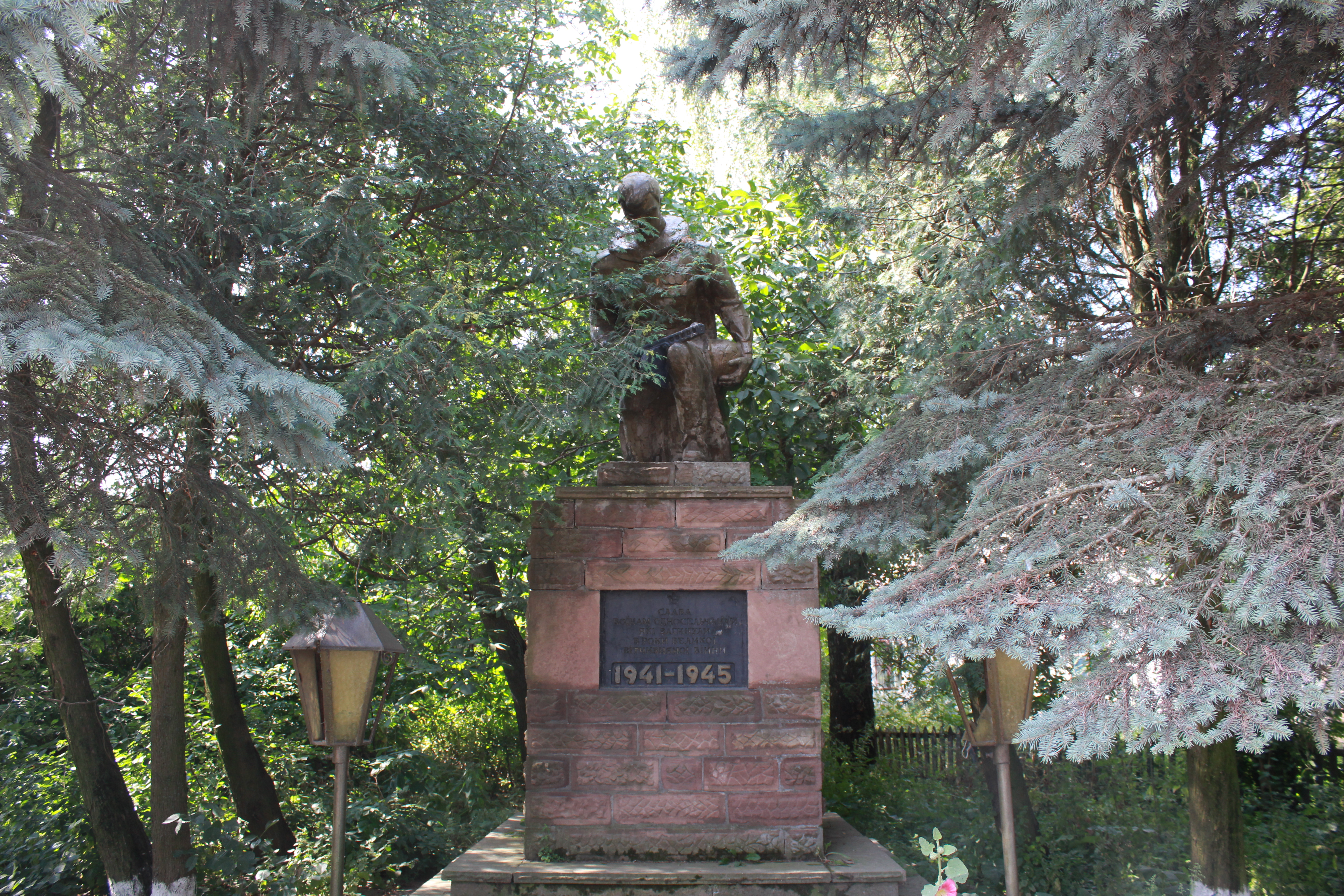 Пам'ятник воїнам-односельцям, полеглим у німецько-радянській війні